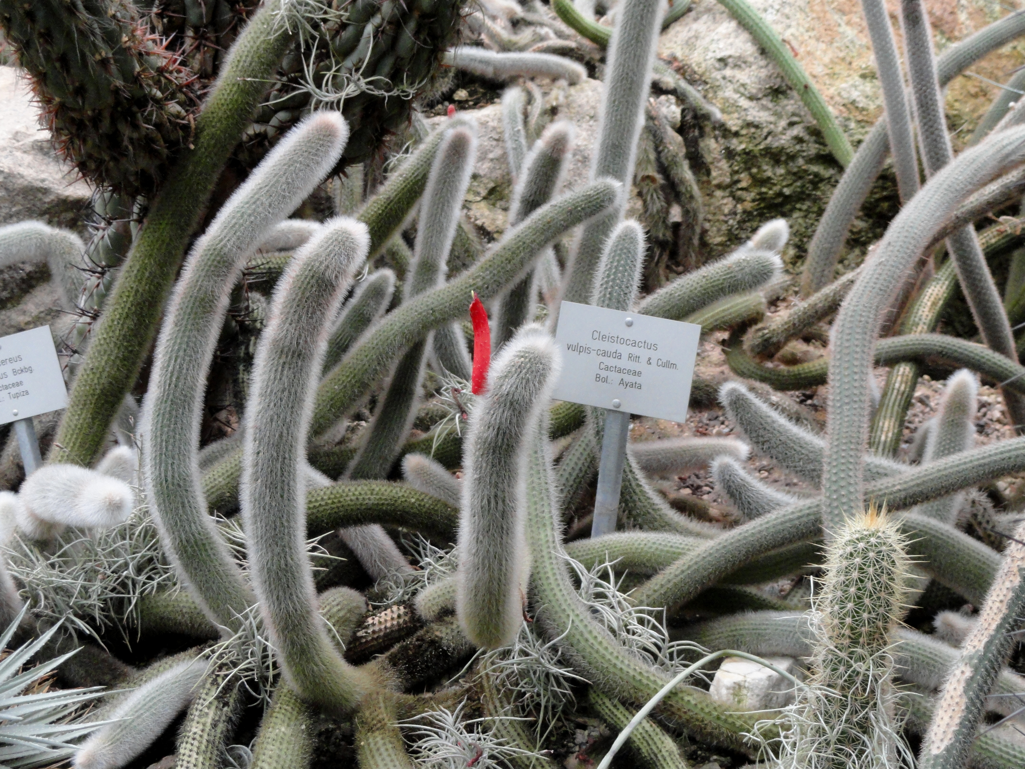 Botanical specimen in the Palmengarten, Frankfurt am Main, Germany.